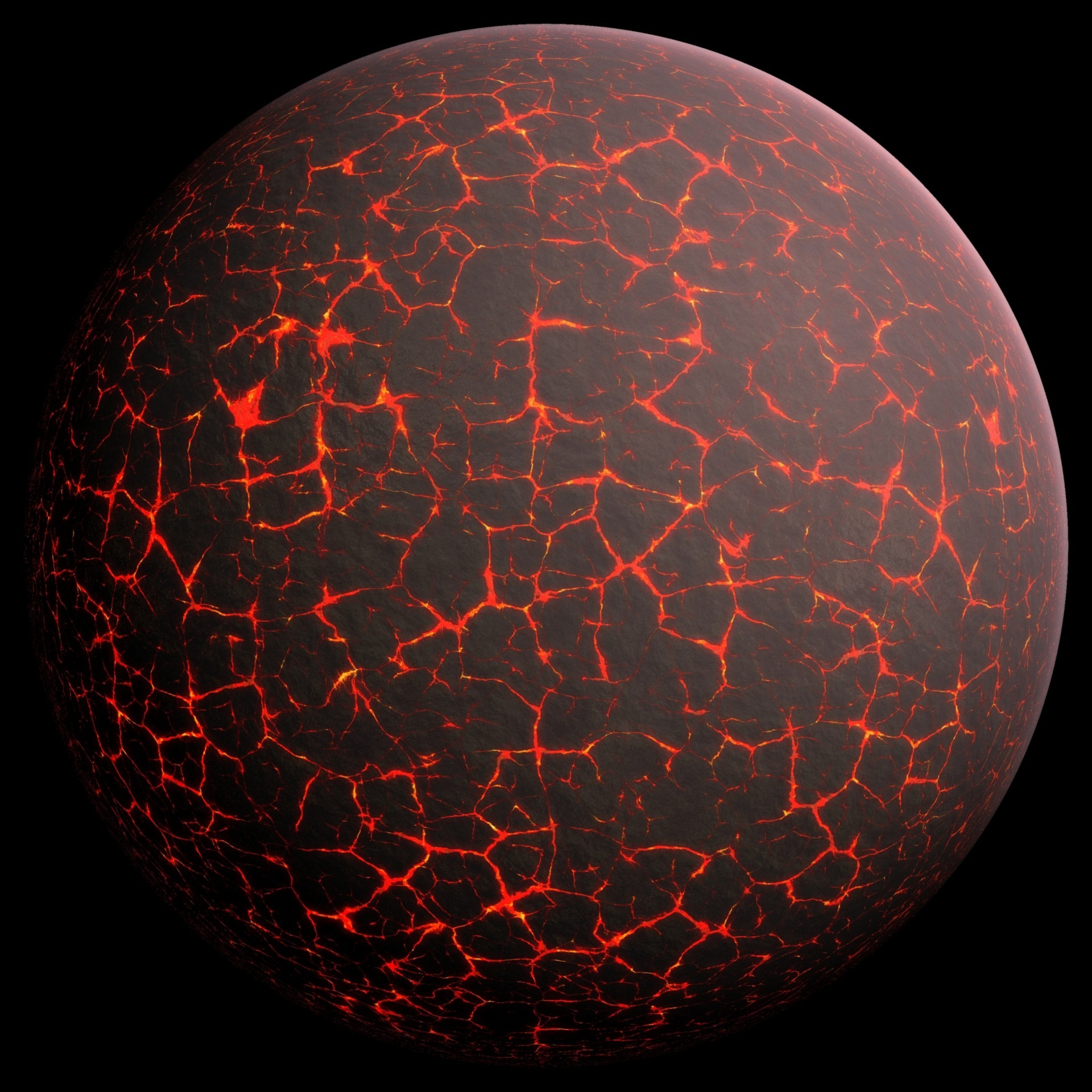 Illustration of the early conditions of your planet